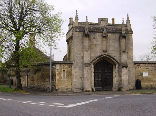 Hospital gatehouse Stamford hospital lies behind this wall but this entrance is not used. The plaque (right) indicates that this is the only remaining portion of the House of Whitefriars 1289. Richard II had a lodge here in 13?? (I can't read my notes!)